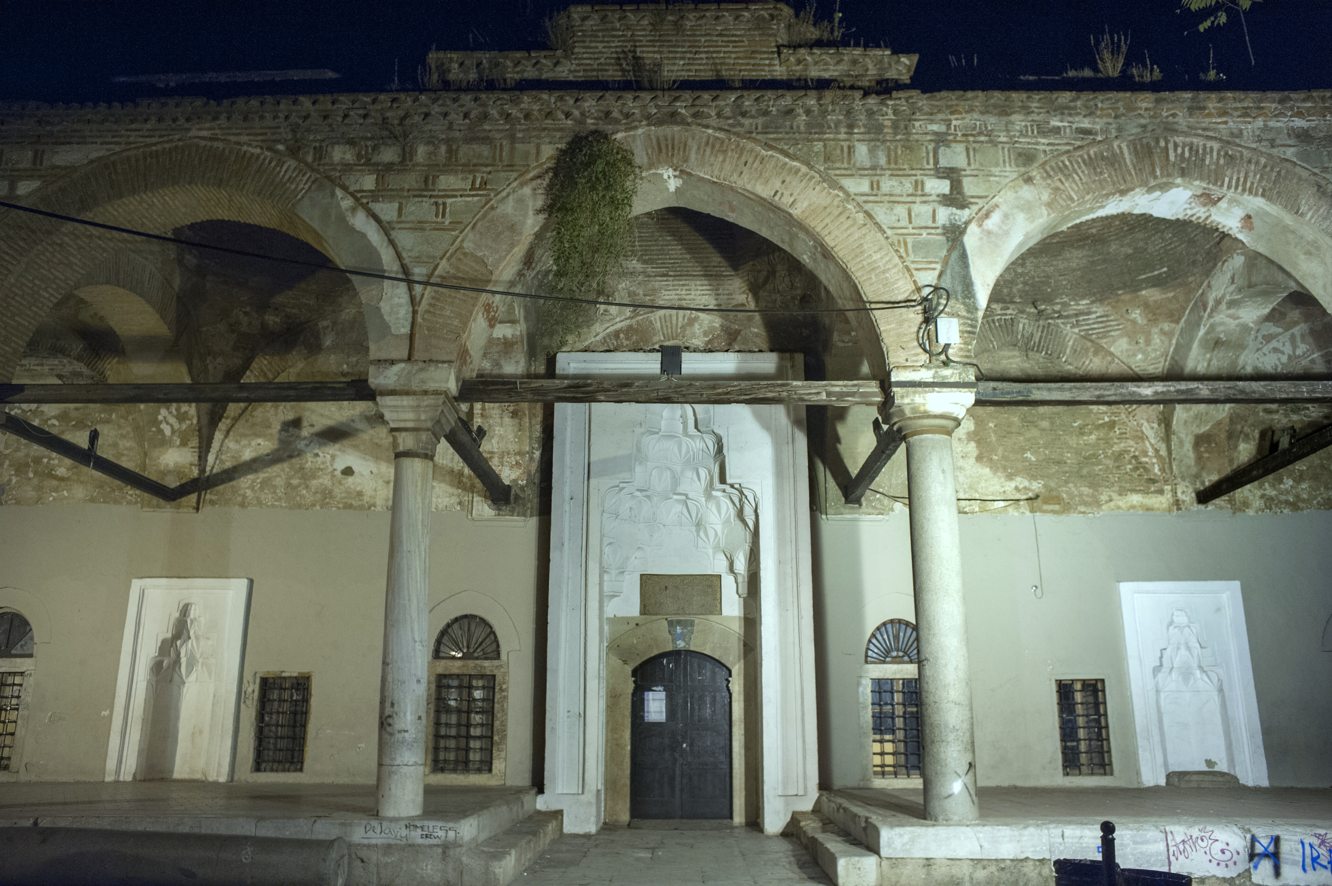 Alaca Imaret Mosque, Thessaloniki, Greece.